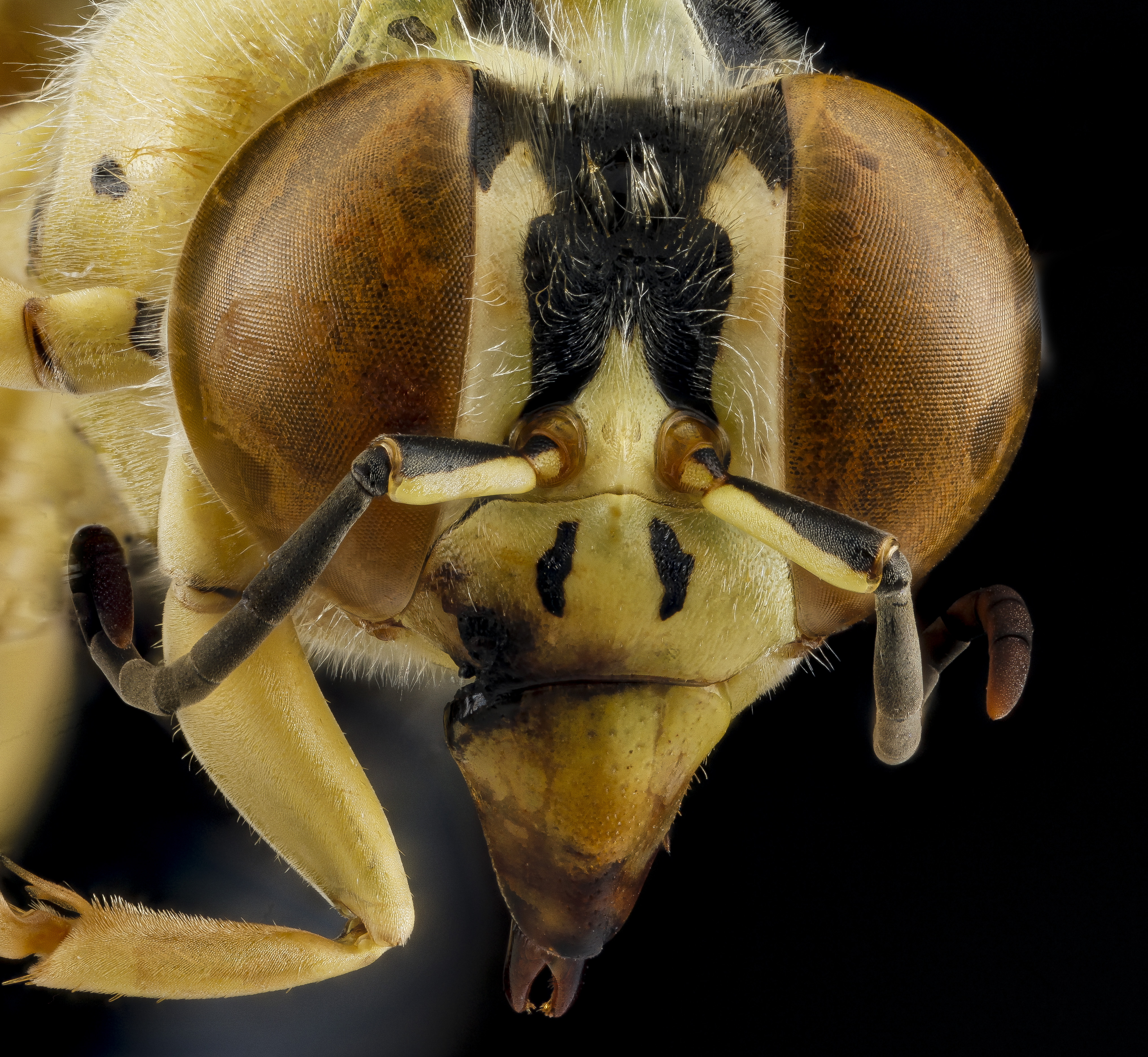 Stictia signata, female, Sand Wasp from Guantanamo Bay, Cuba